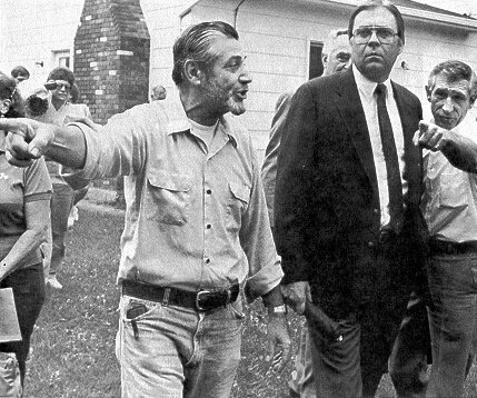 Love Canal residents discuss revitalizing their contaminated neighborhood with Administrator Lee Thomas in September, 1985. Learn more about the Love Canal disaster